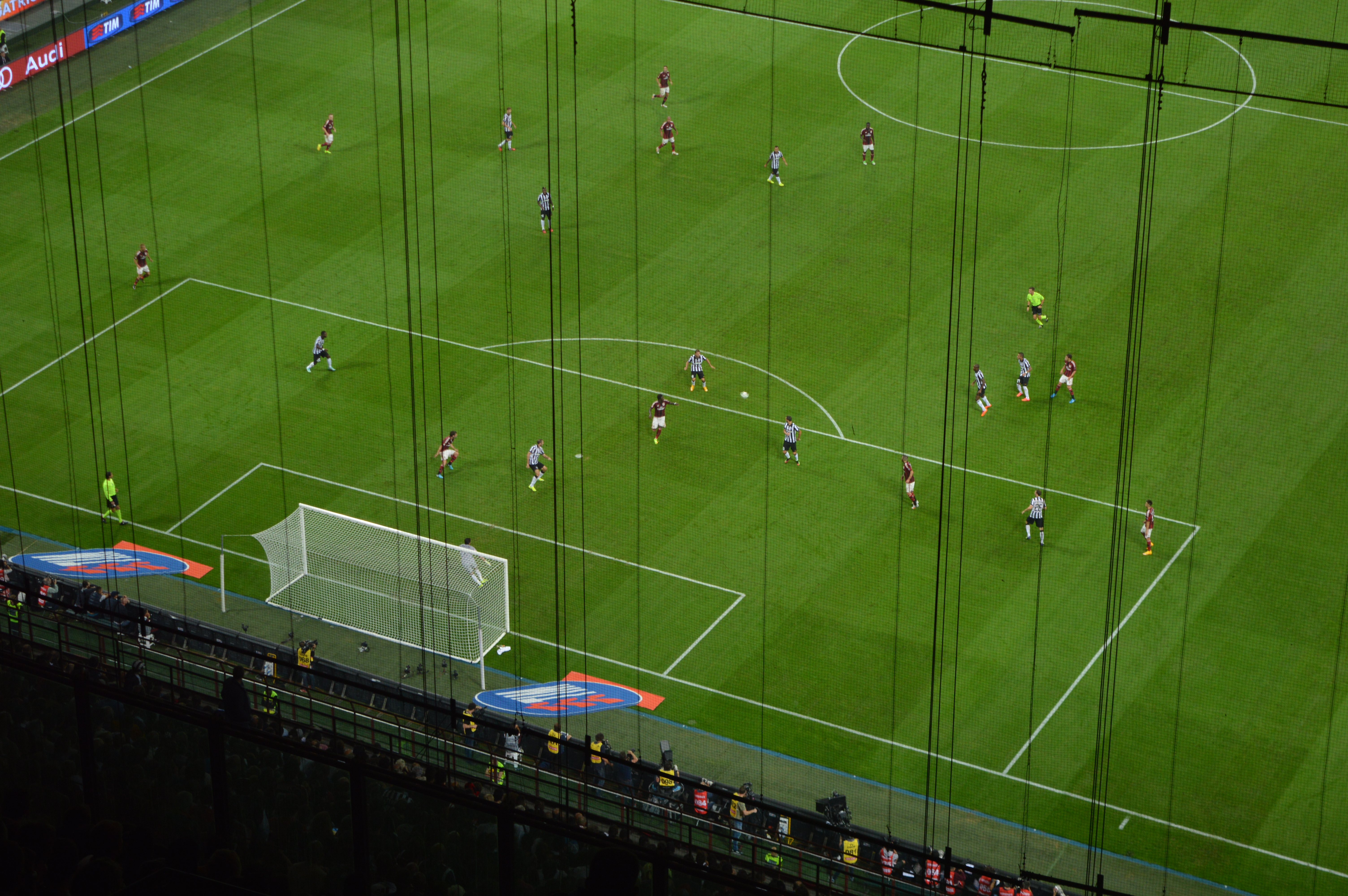 Milan vs Juve